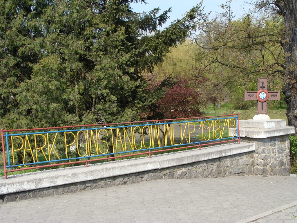 Śrem, Park of Insurgents of Greater Poland, entrance.